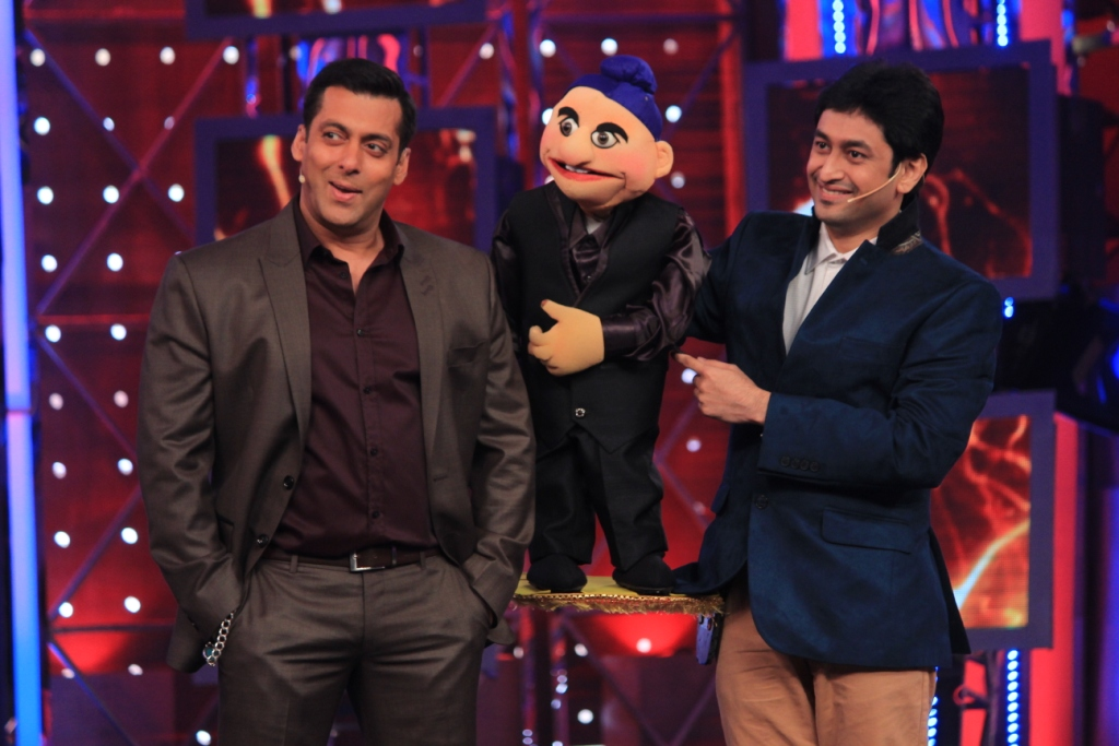 Satyajit Padhye with Salman Khan on Bigg Boss Season 8.